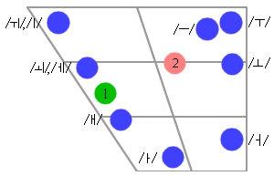 Vowels of Korean language